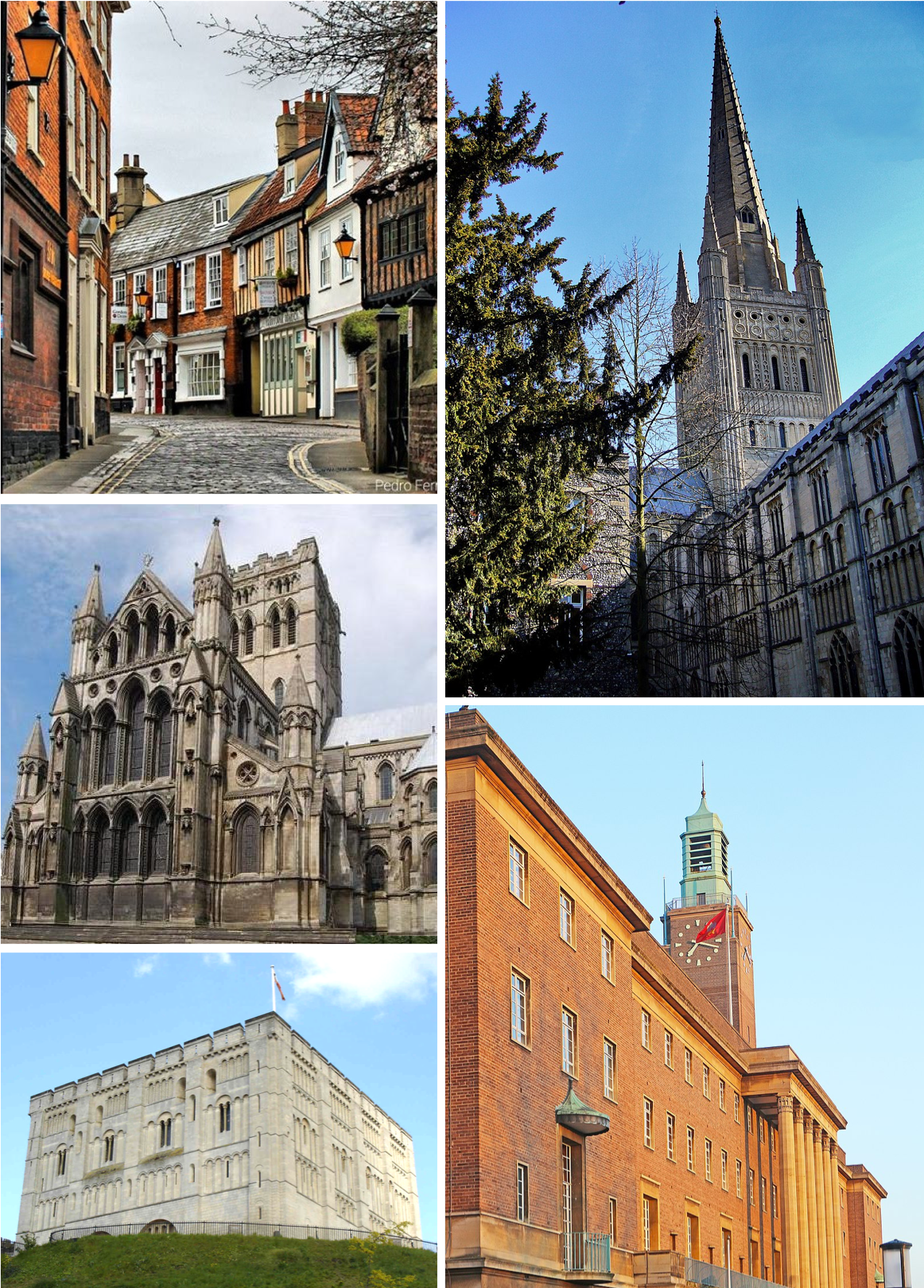 Views of Norwich (collage)